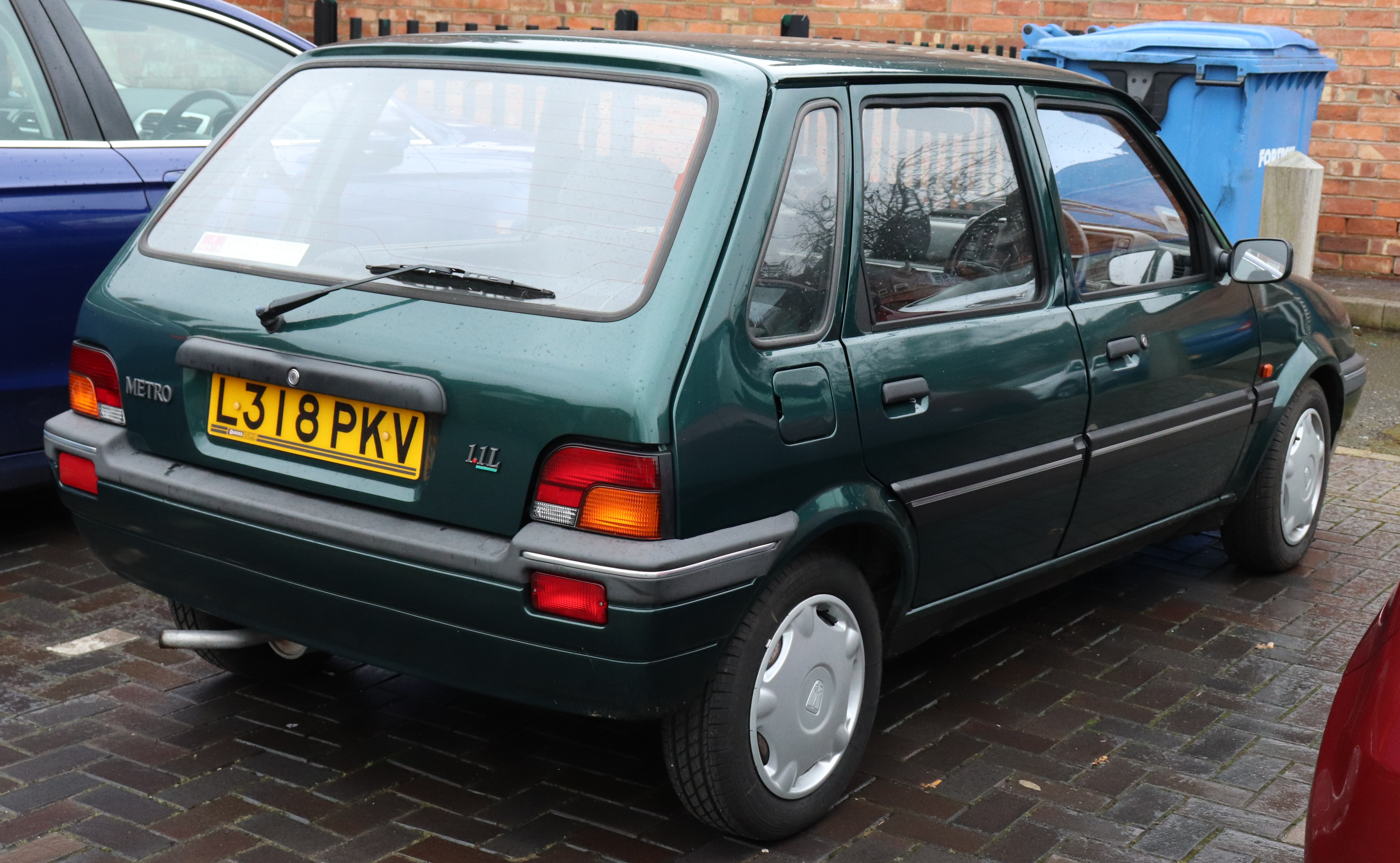 1993 Rover Metro L 1.1 Rear (Fantastic survivor!) Taken in Warwick